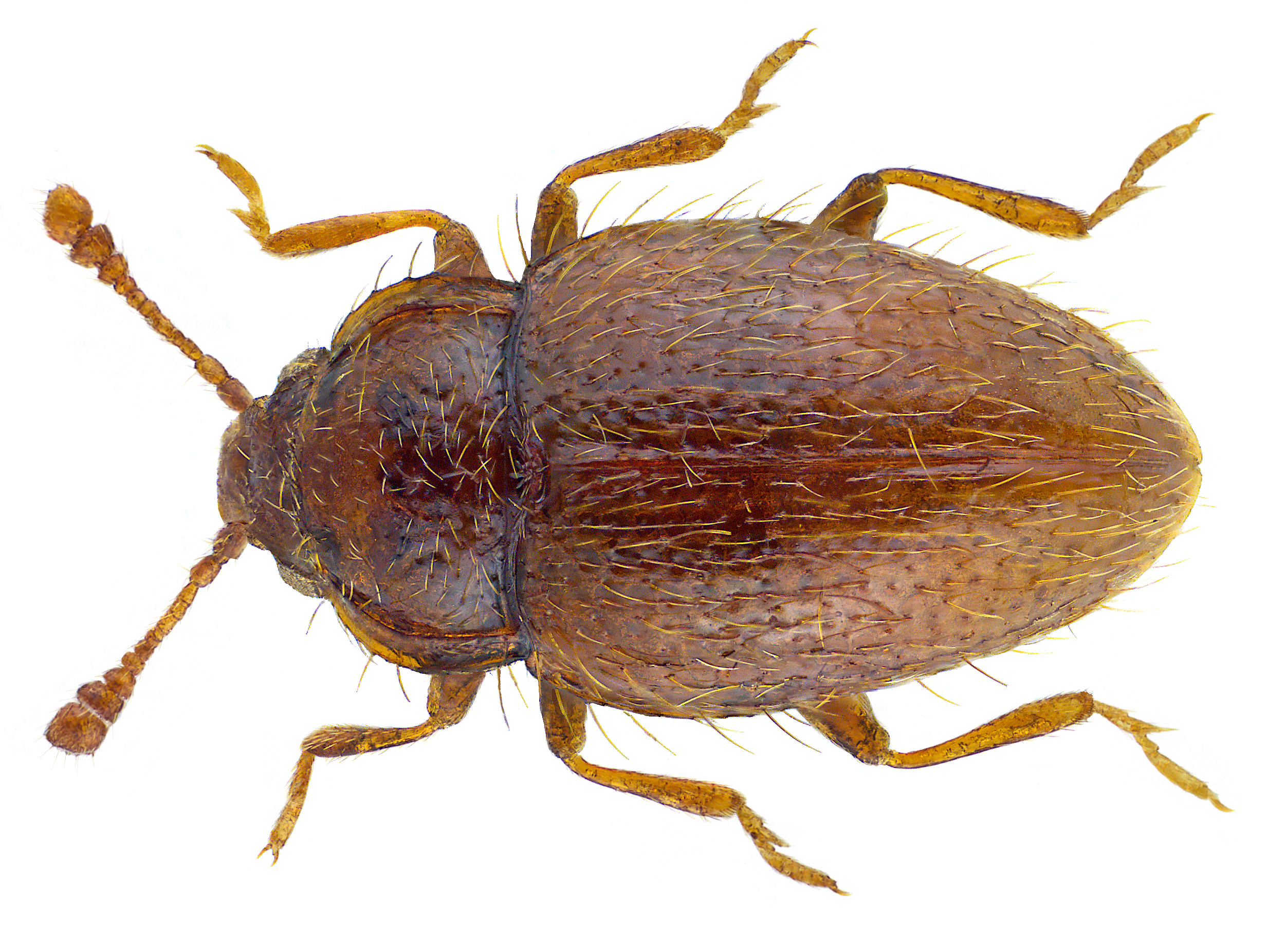 Family: Endomychidae Size: 1.7 mm (1.5 to 1.8 mm) Distribution: Europe Ecology: lives mainly synanthrop in cellars and barns, outdoors in hollow trees Location: Germany, Bavaria, Upper Franconia, Kulmbach, Forstlahm leg.det. U.Schmidt, 7.VIII.1976 Foto: U.Schmidt, 2016